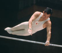 Takashi Ono at the 1964 Olympics